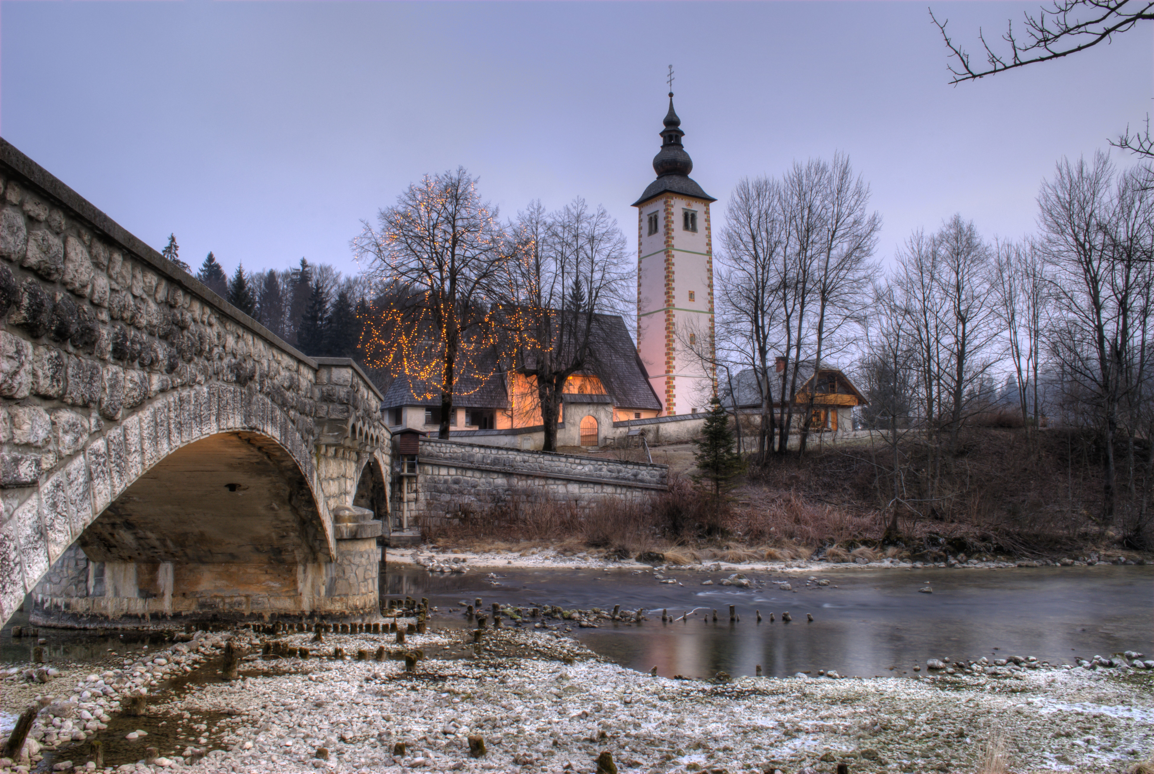 Church of st. John the Baptist at Lake Bohinj. The church was built in the Gothic style. The bridge was built in 1926.